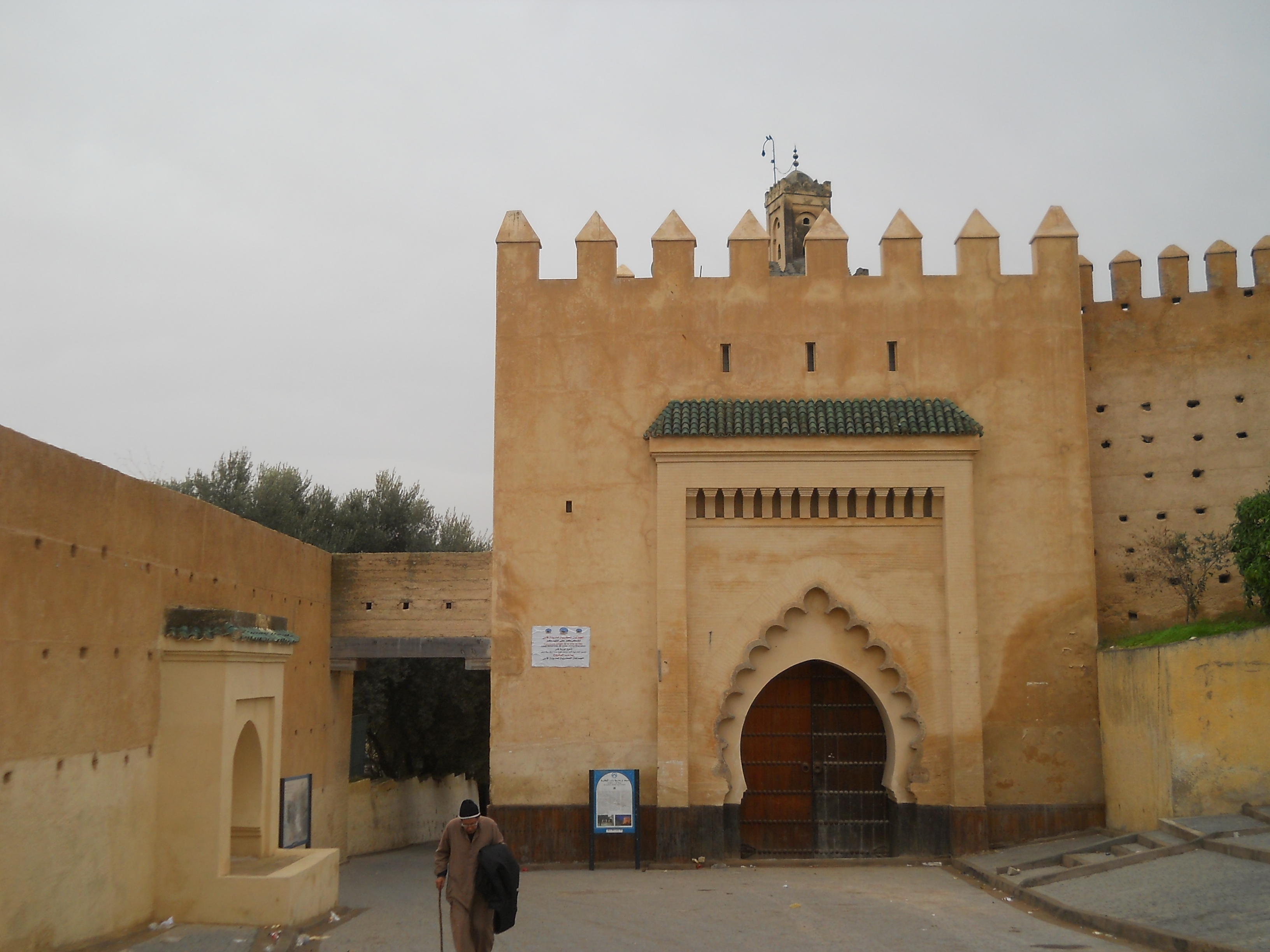 Bab Guissa, the northern gate of Fes el-Bali (old Fez) in Morocco